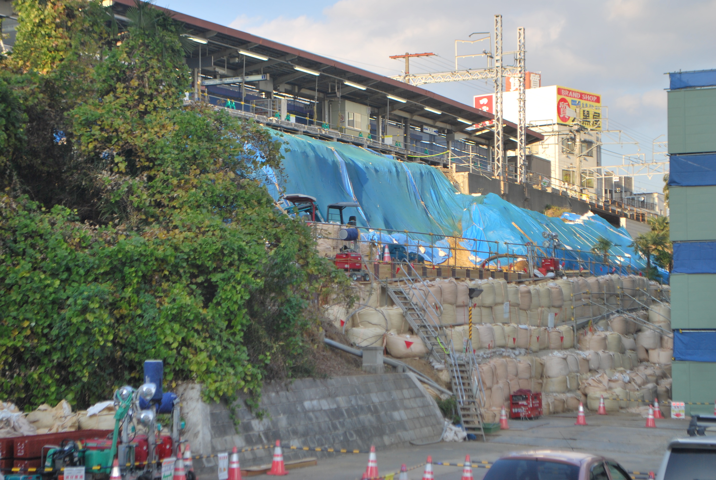 Construction of slope of Keisei Narita Station,Narita-city,Japan